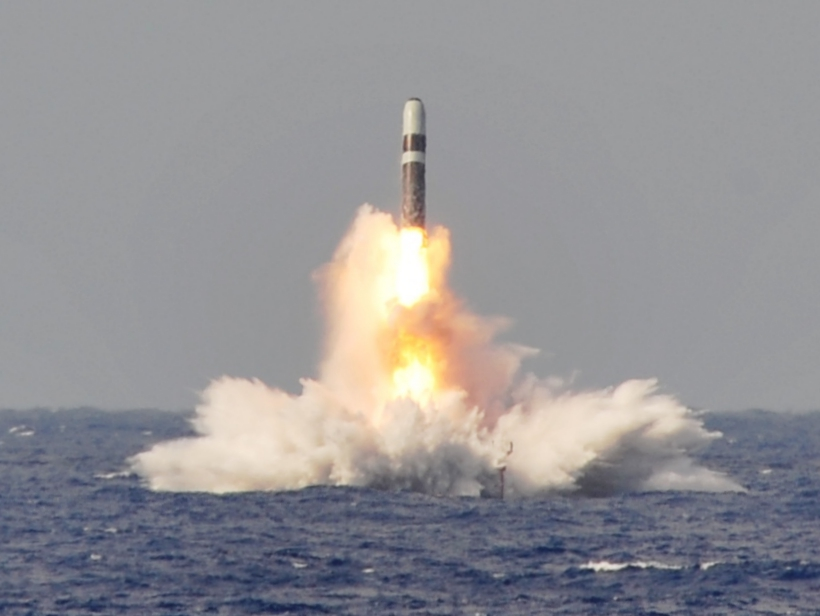 A UGM-133A Trident II ballistic missile is launched from the U.S. Navy Ohio-class ballistic missile submarine USS West Virginia (SSBN-736) during a missile test at the Atlantic Missile Range. The test flights were part of a demonstration and shakedown operation, which the U.S. Navy used to certify a submarine for deployment after a major overhaul. The missiles were converted into test configurations with kits containing range safety devices and flight telemetry instrumentation.